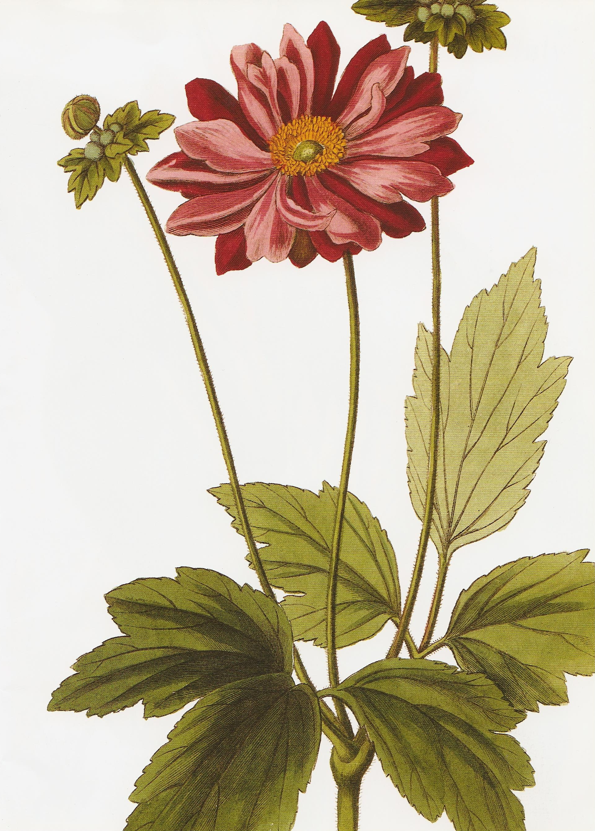 Anemone japonica, a hand-coloured engraving after a drawing by Miss S. A. Drake (fl. 1820s-1840s), from the 31st volume of the Botanical Register (1845), edited by John Lindley. Although described in the 18th century, it was not grown in England until Robert Fortune introduced it through the Horticultural Society in 1844.